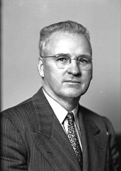 Representative Milton R. Loney, 1947